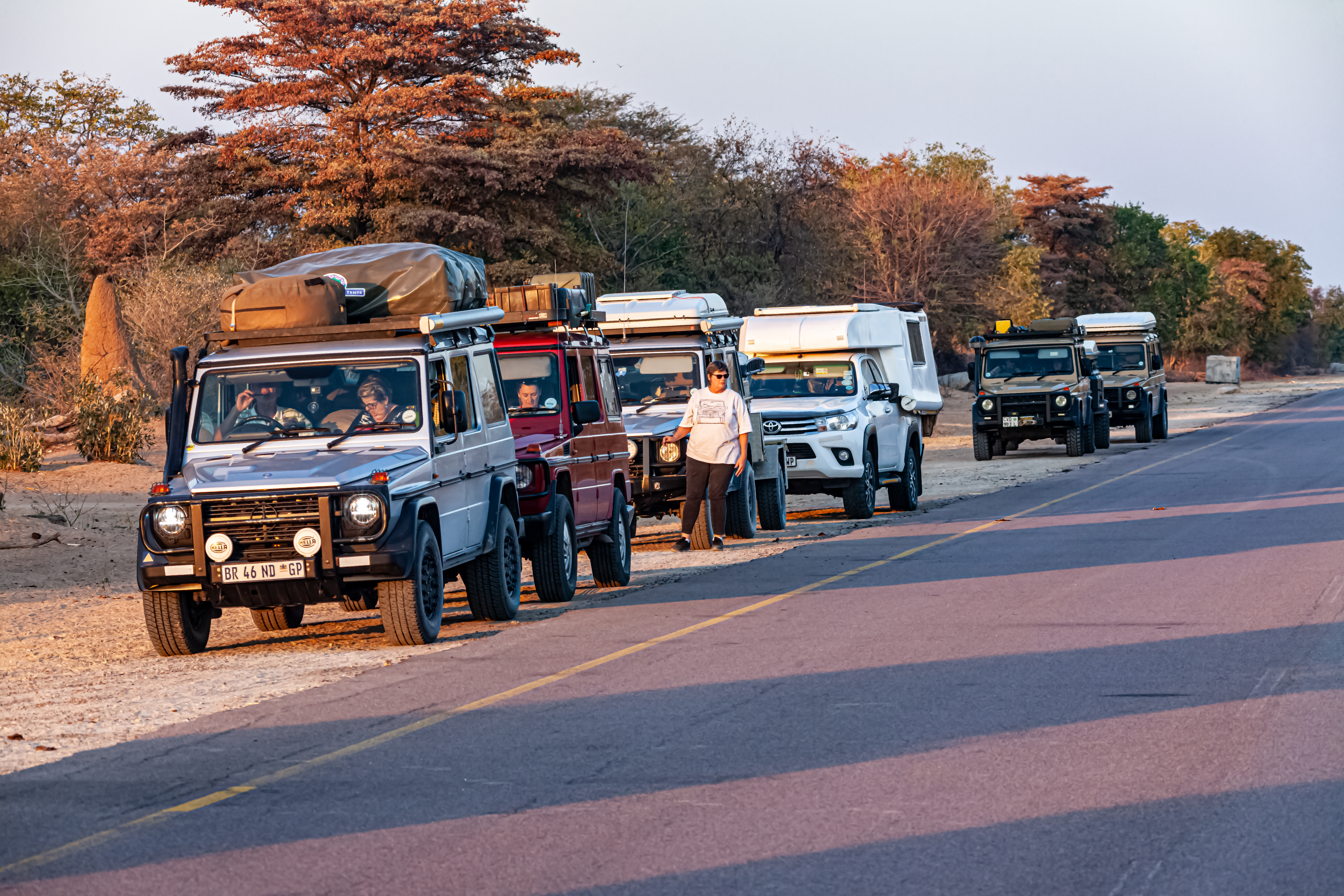 Late afternoon roadside stop This is an image with the theme "Africa on the Move or Transport" from: Angola